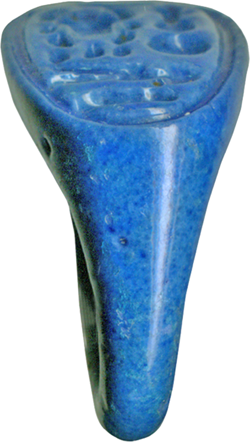 This is a sturdy seal ring of royal blue faience, imitating the shape of precious rings of the period. The inscription gives the throne name of King Amenophis IV (Akhenaten).